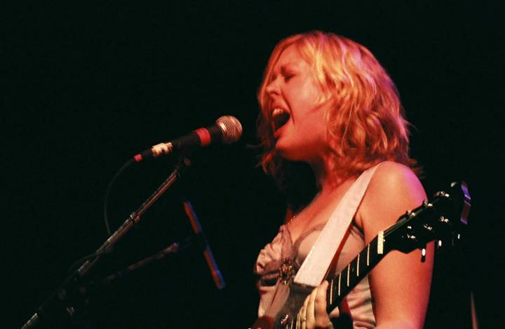 Photo taken by myself (justin poselenzny) at a recent Sleater-Kinney show in Portland, OR, at the Crystal Ballroom.